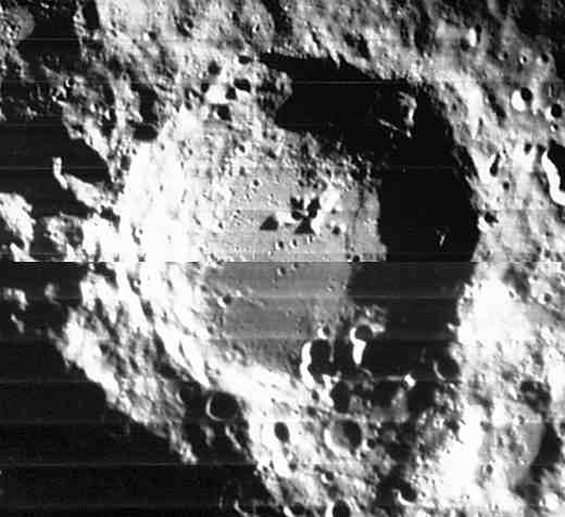 Combination of Lunar Orbiter IV images IV-070-H2 and IV-058-H1